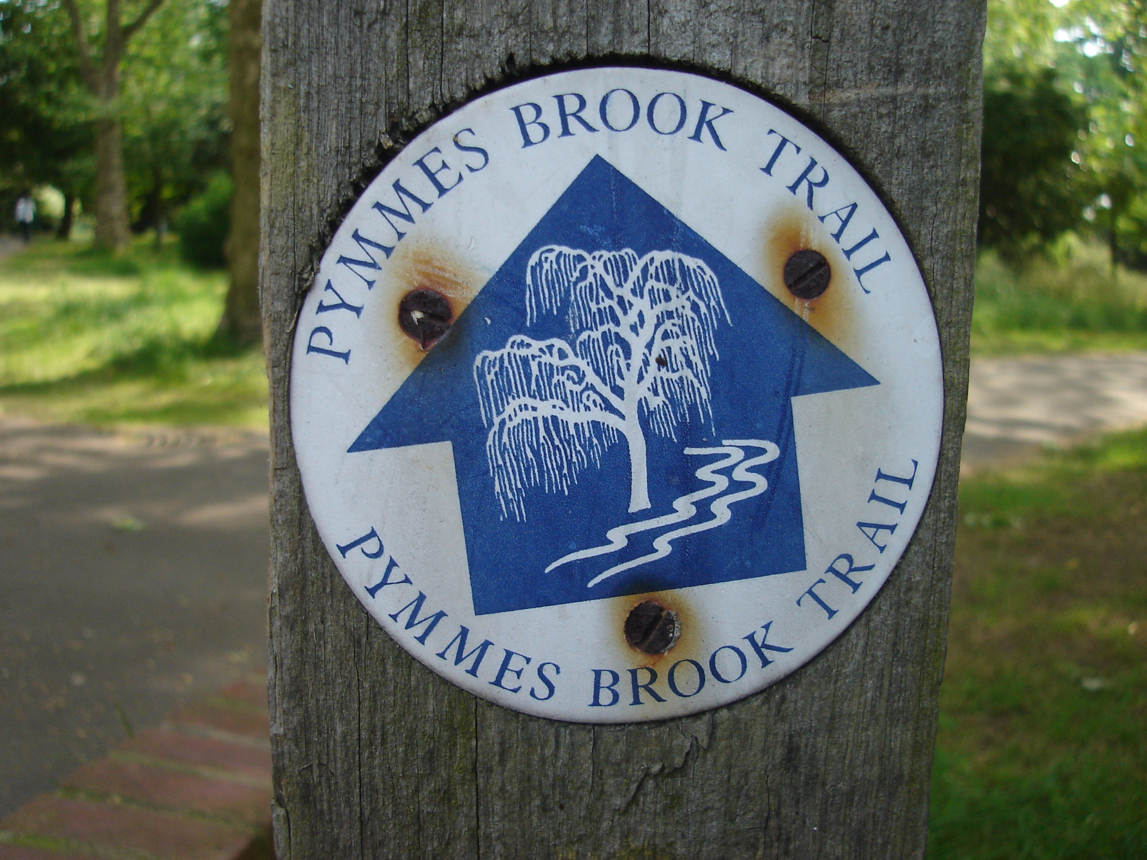 Picture of Pymmes Park Trail marker